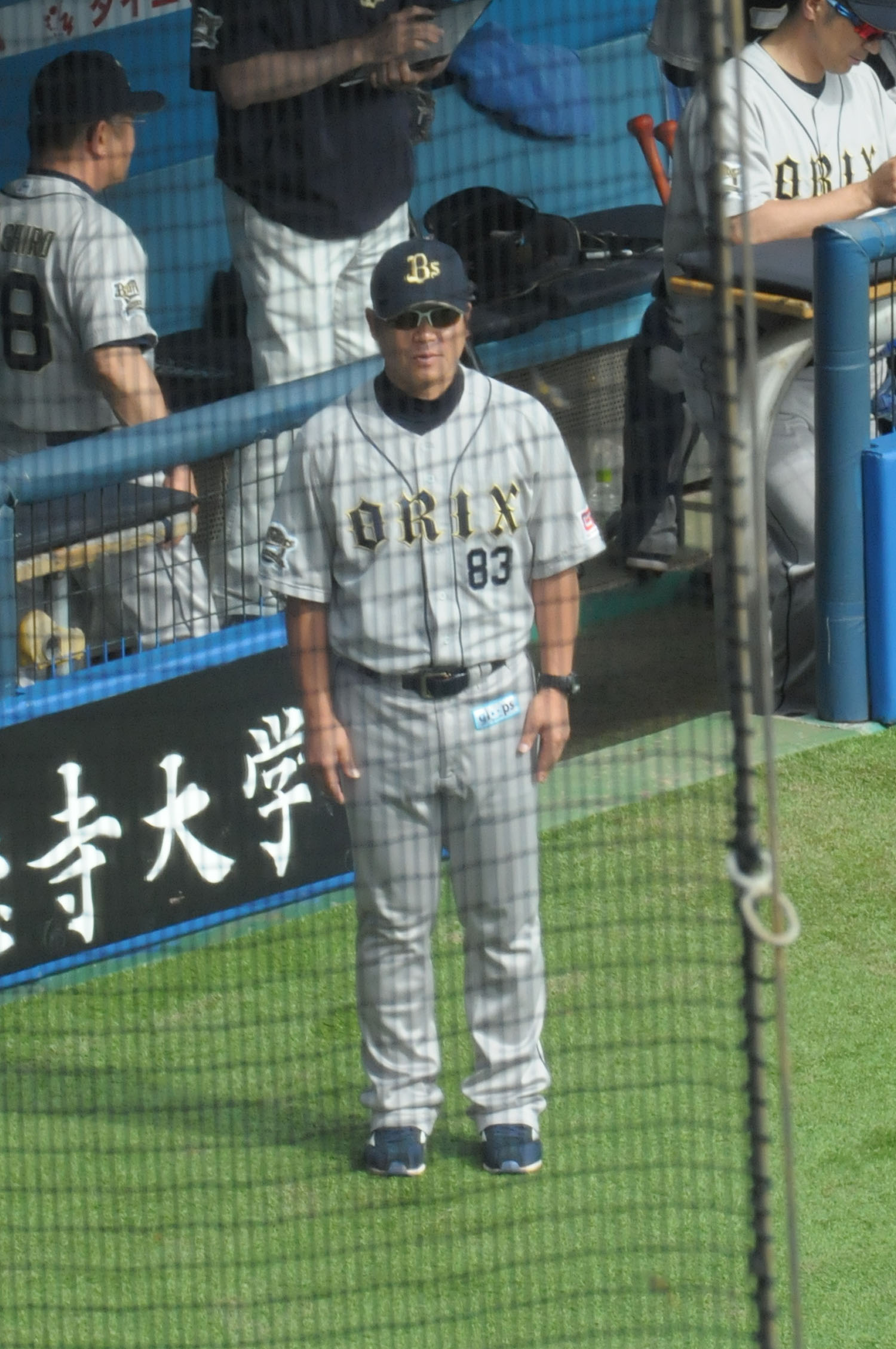 Hirofumi Ogawa, coach of the Orix Buffaloes, at QVC Marine Field.